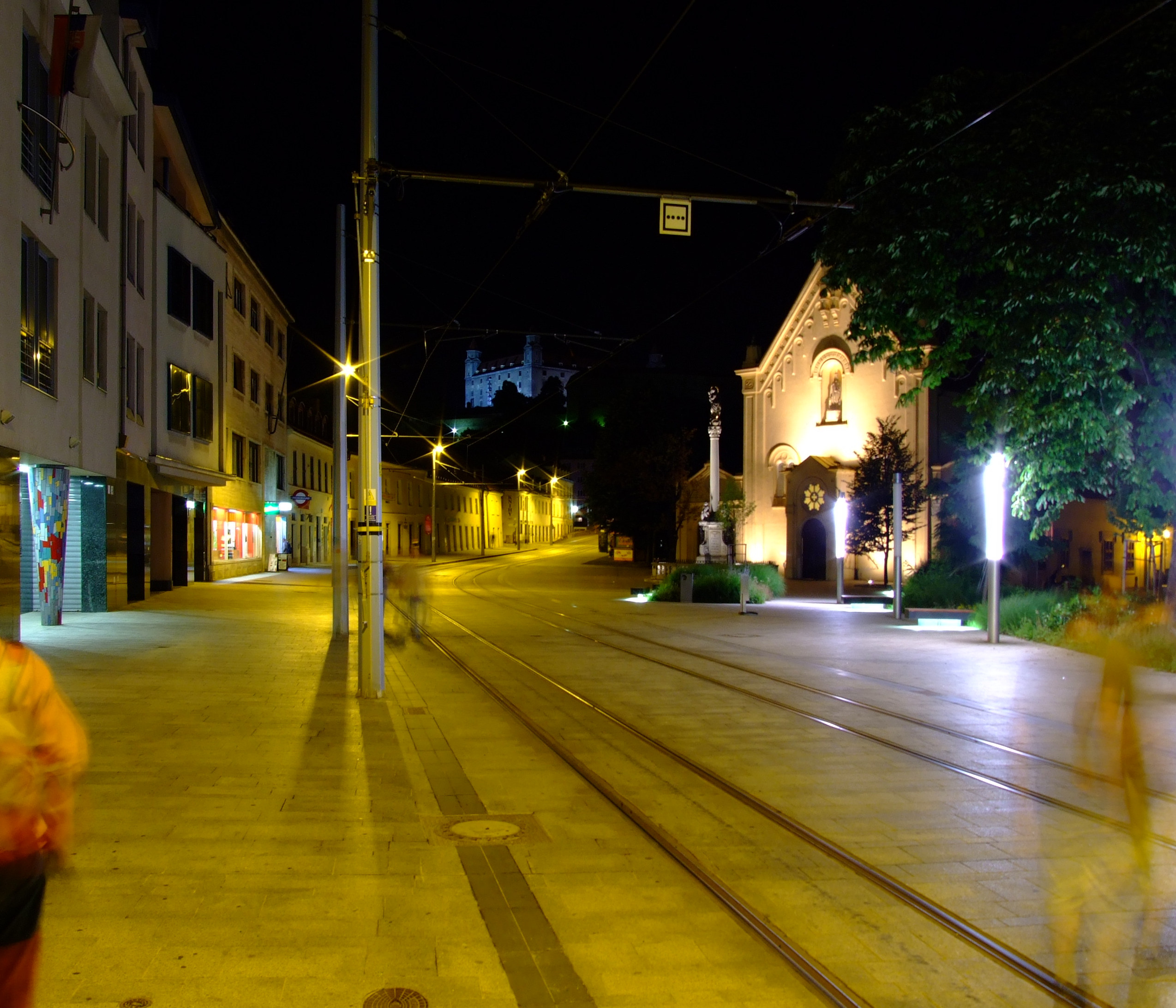 Kapucínska street in Bratislava old townhelp